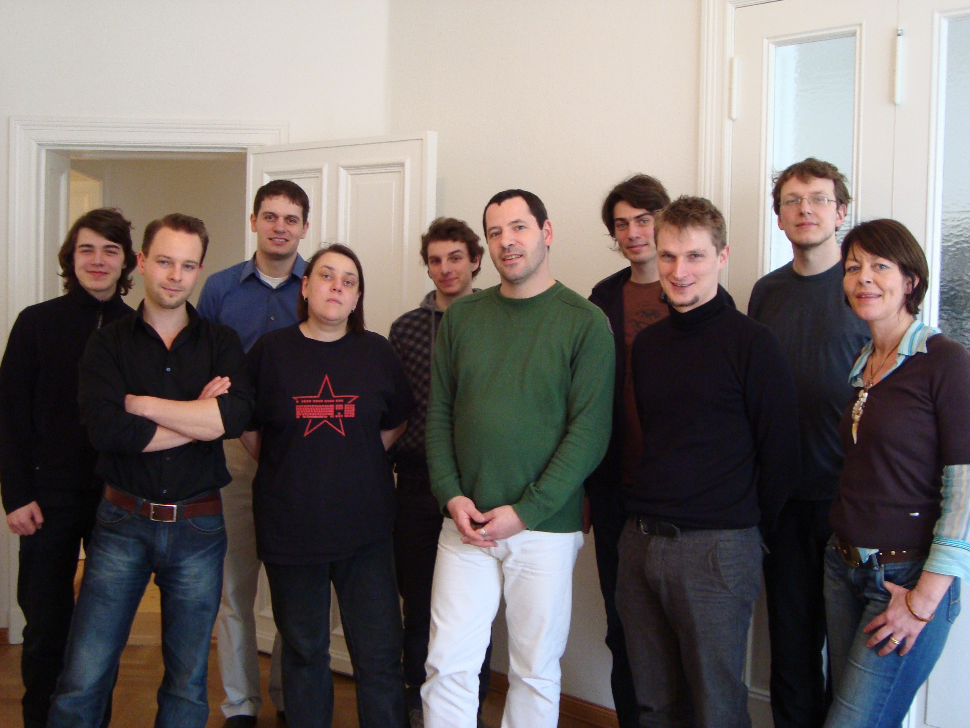 Staff of Wikimedia Deutschland